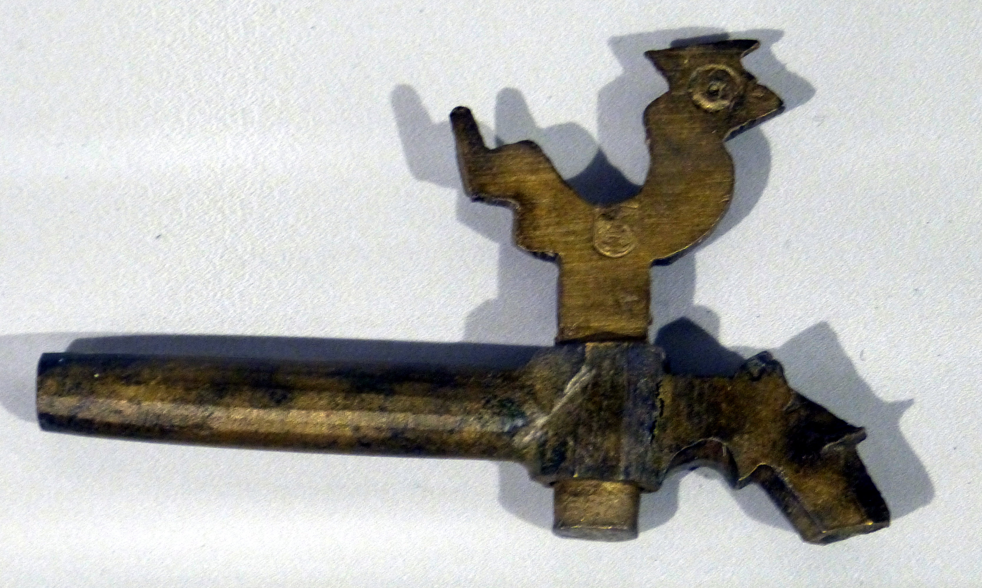 Upper Austrian Castle Museum in Reichenstein castle. Barrel tap ( 16th century ), probably produced in Nuremberg, from Prandegg castle.